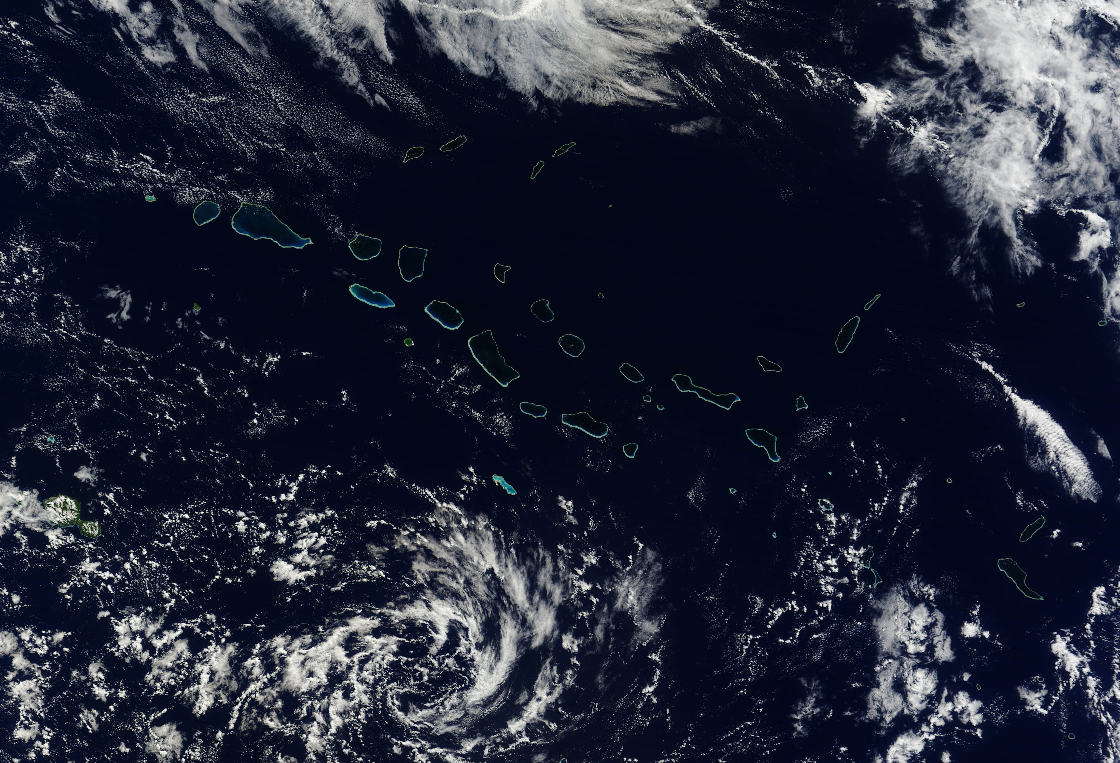 Natural-colour image of the north-western portion of the archipelago, including the largest coral atoll in the group, Rangiroa. Delicate rings of iridescent blue-green surround deep blue waters and clouds float overhead. At the north-western extent of the island chain—including islands shown in this image—rocks date to roughly 65 million years ago.